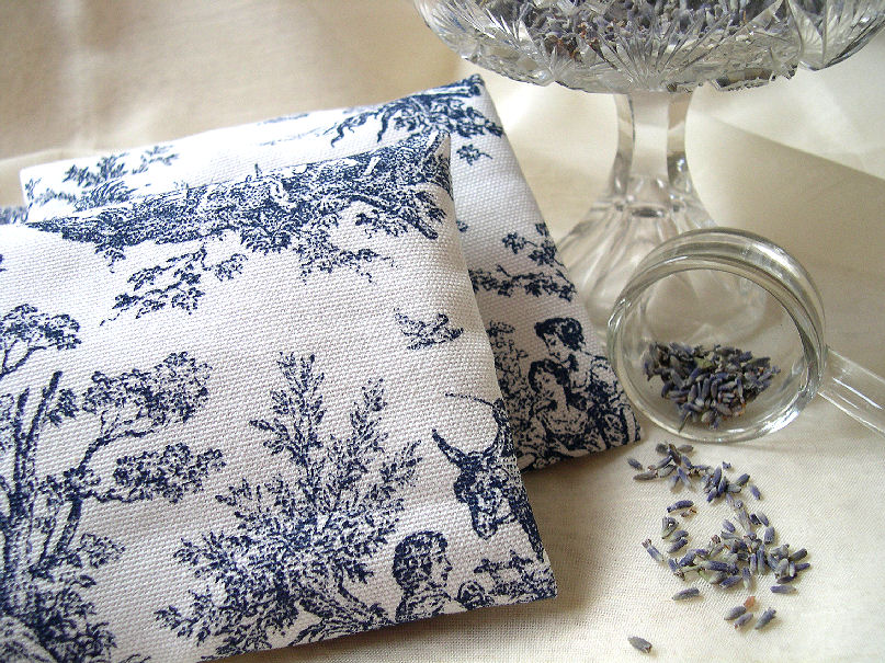 Blue Toile Lavender Sachets